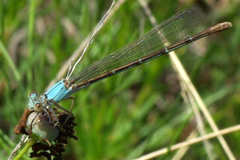 Powdered Dancer (Argia moesta) damselfly perched near Spring Creek in Garland, Texas.